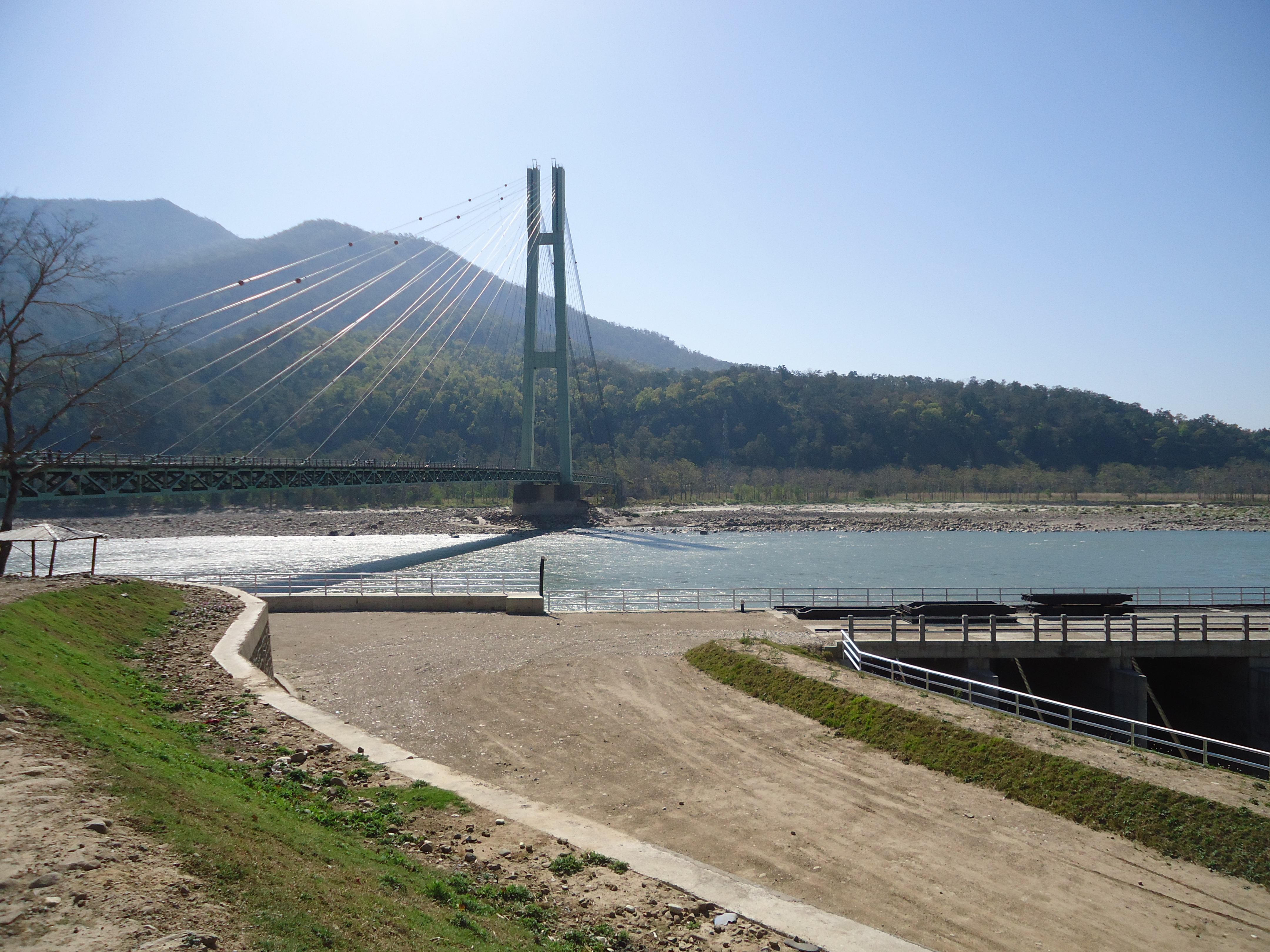 Cable-stayed_bridge over the Karnali River in Chisapani, western Nepal